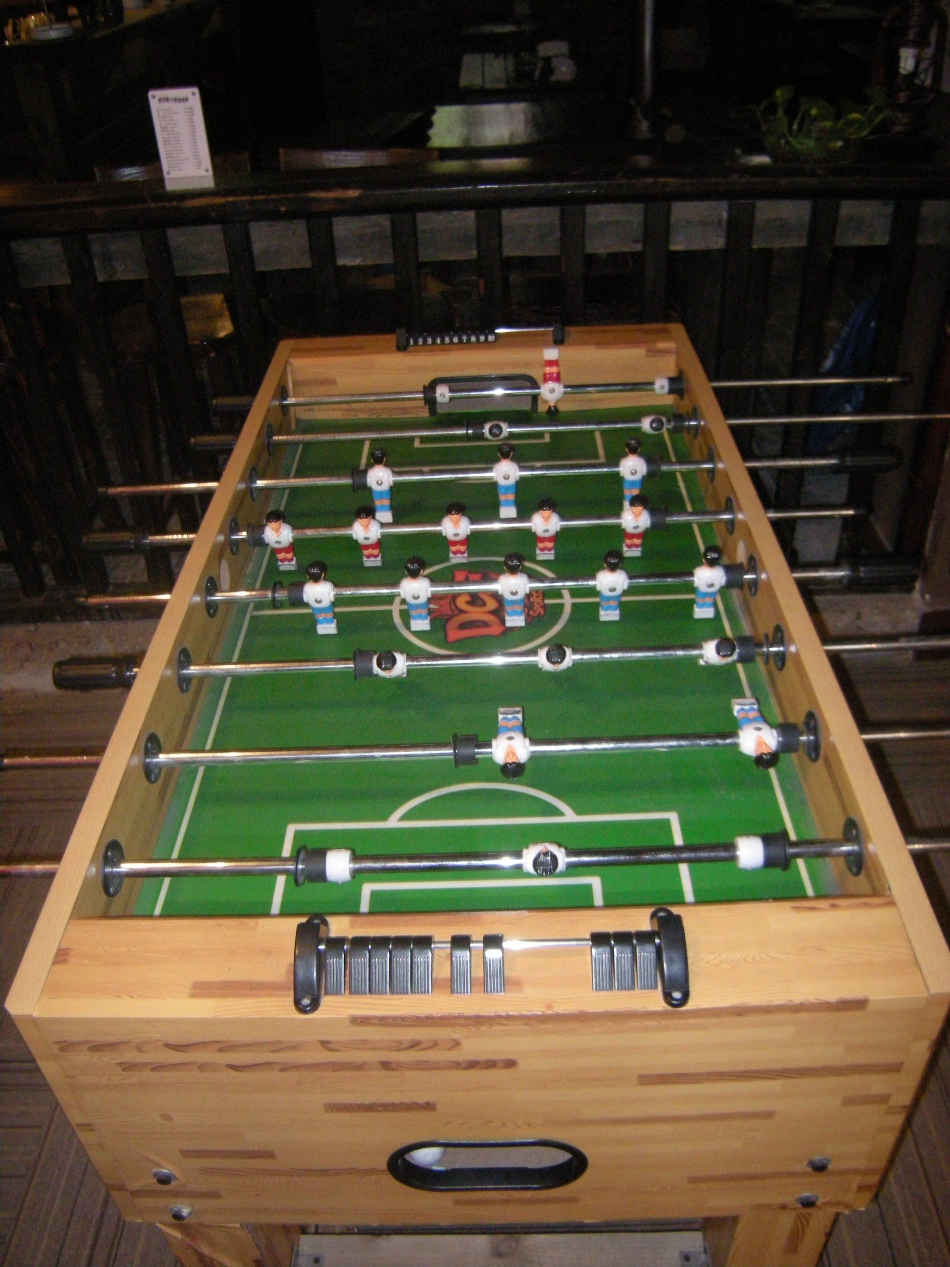 Table_football